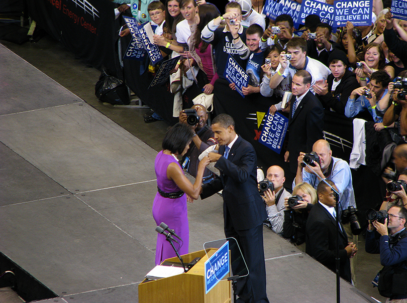 Michelle Obama and Barack Obama enjoy a victory fist pound upon winning the Democratic Nomination.